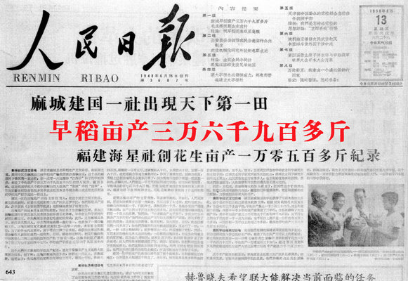 On August 13, 1958，People's Daily used half-page coverage to report People's commune was created 36,956 catty of rice per mu record at Macheng ,hubei.